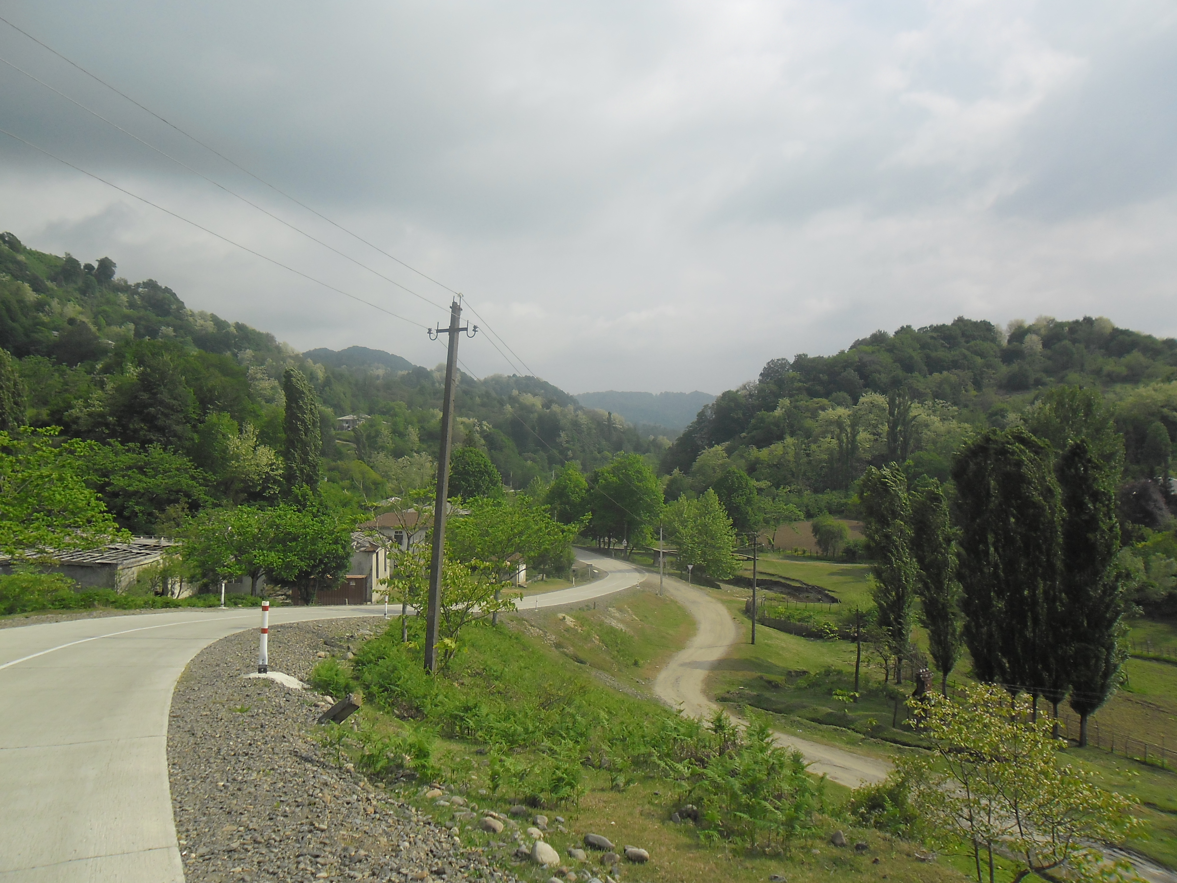 village Baghlefi (Baghlebi)